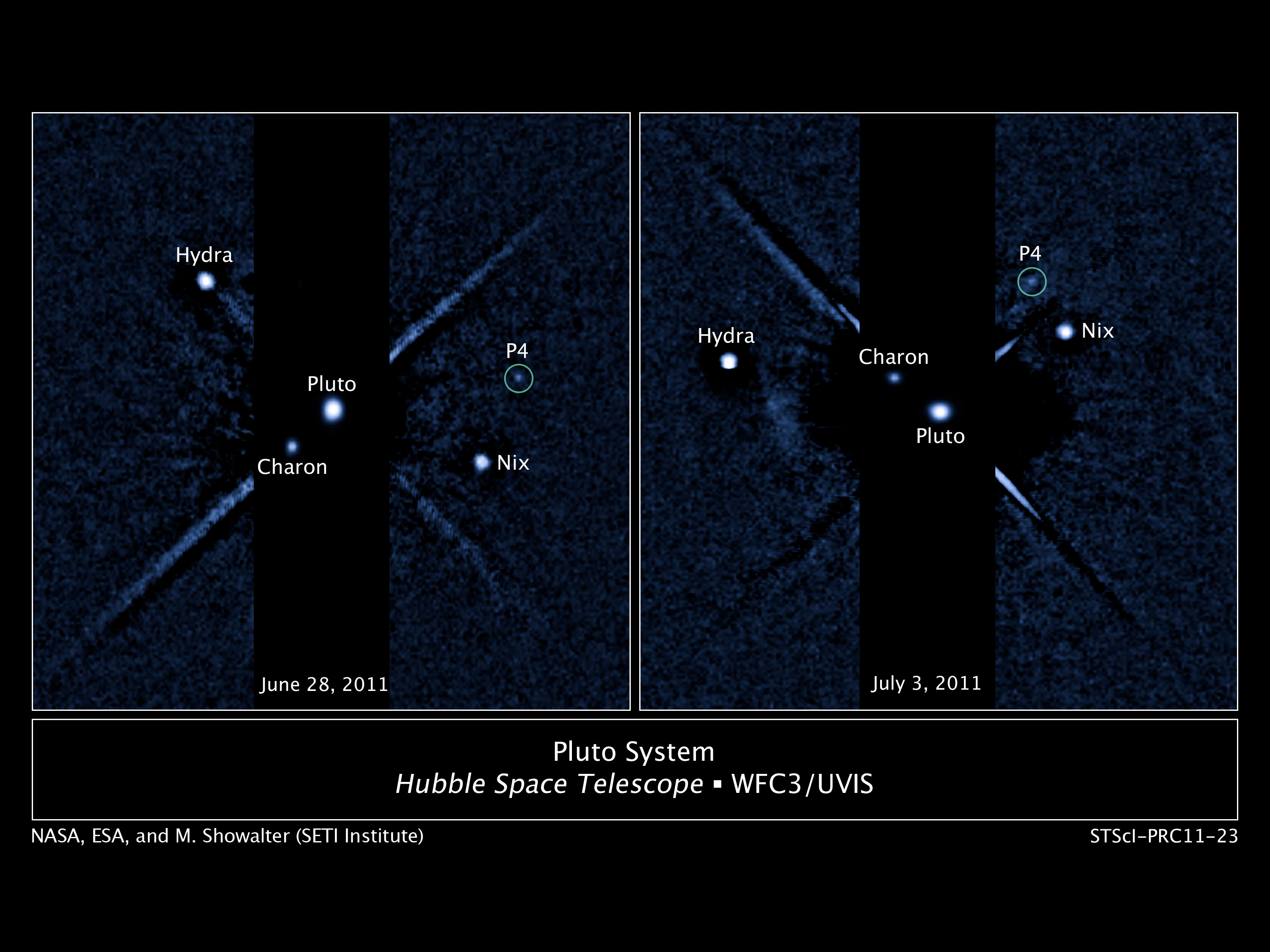 2 Pluto Moons Get New Names.